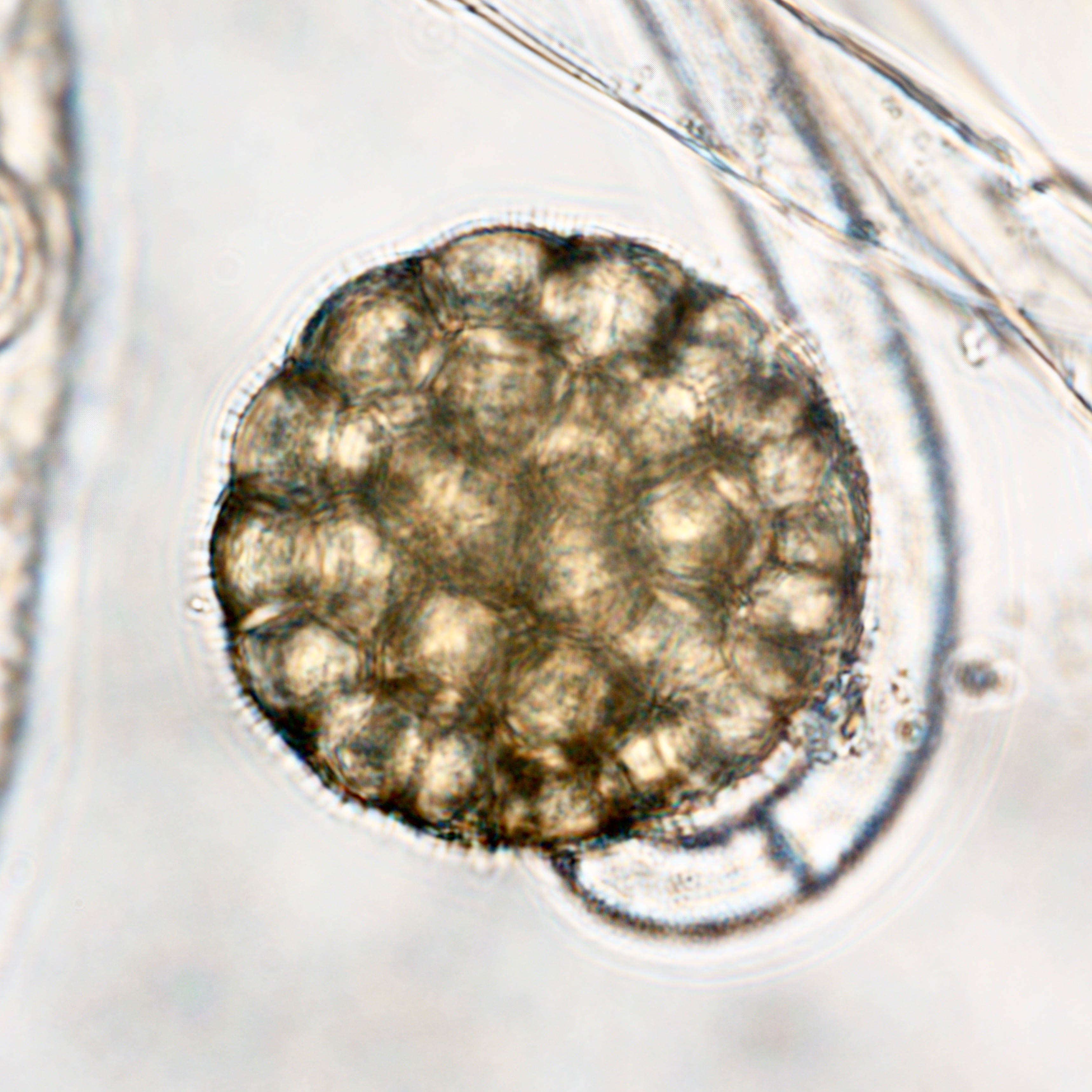 Backusella sporangium with a septate sporophore, immersed in water, viewed with bright-field microscope